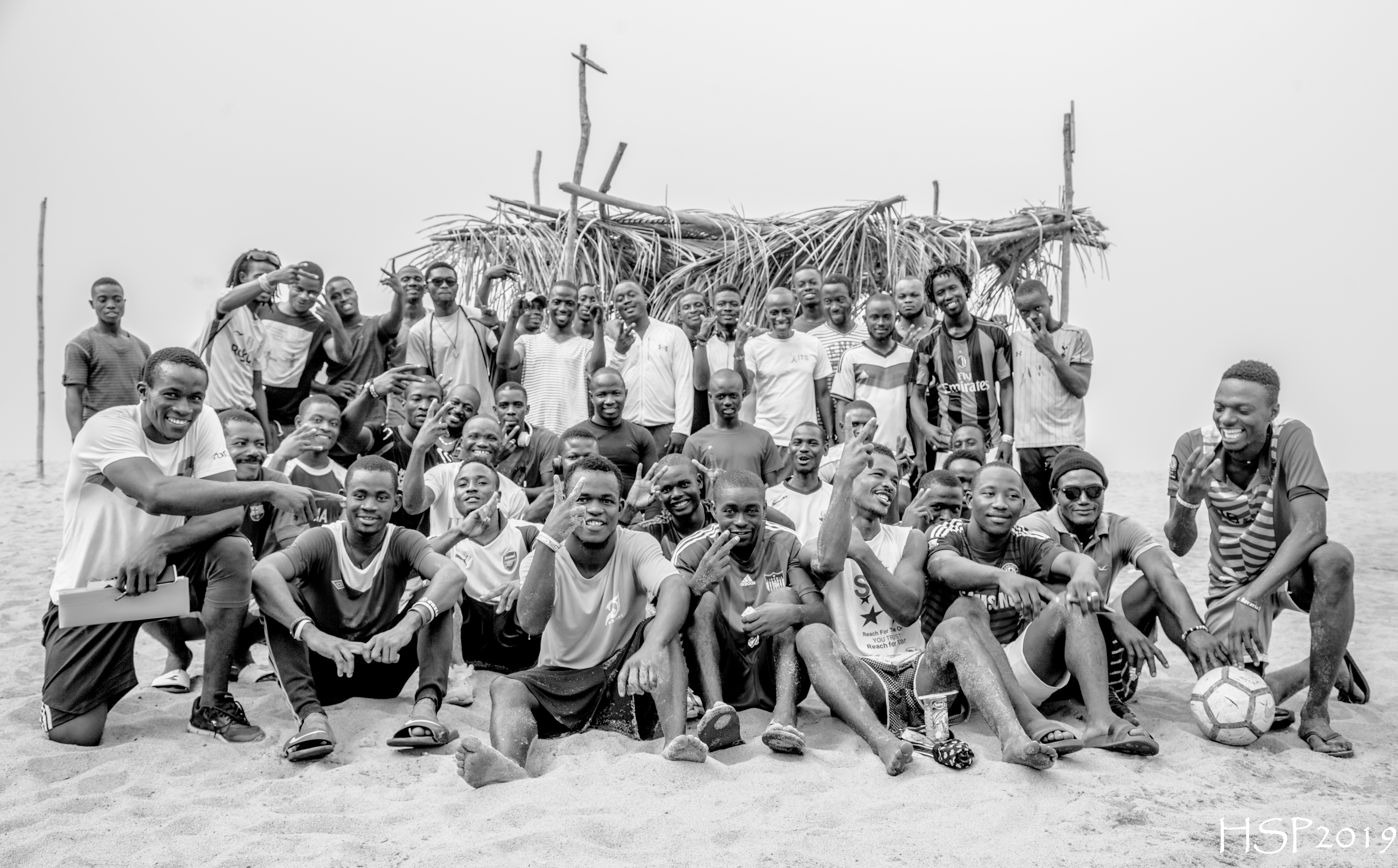 The Desert FC is a Monrovia, Mamba Point based amateur soccer club with regular training and tournaments. This urban soccer club of Monrovia organizes youth and young adults though sport and encourages continuing education, including vocational training. Manager and trainer is Mr. Torh Doteh